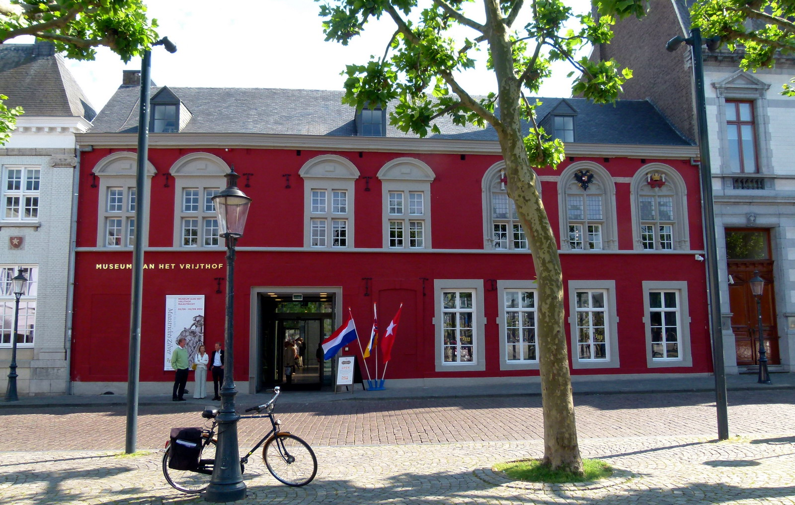 Museum aan het Vrijthof, Maastricht, Netherlands. Exterior 'Spanish Government Building', after the 2011/12 renovation.